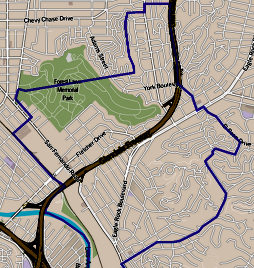 Map of Glassell Park, California, as delineated by the Los Angeles Times Other information Boundary map as drawn by the Los Angeles Times on a CC-by-SA background. Note at bottom right of map on the L.A. Times website noted above says "CC-by-SA" (which gives permission to use the map). There is a link there to which explains the meaning thereof. The base map is credited to The Times spells all this out at